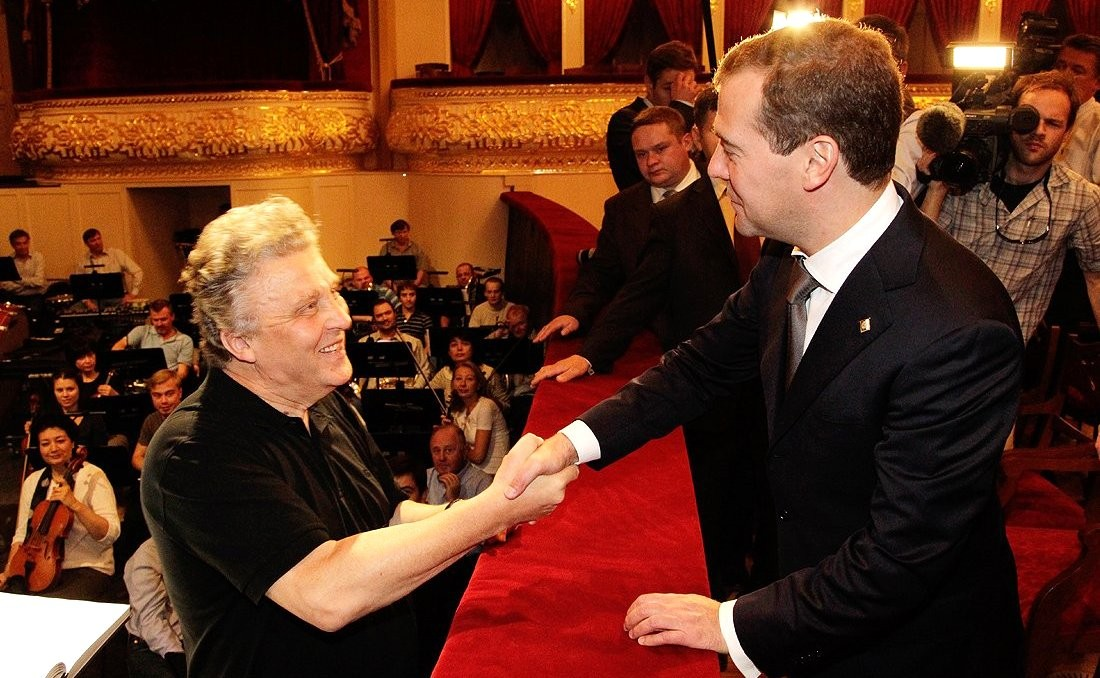 Bolshoi Theatre chief-conductor Vasily Sinaisky and Russia's president Dmitry Medvedev